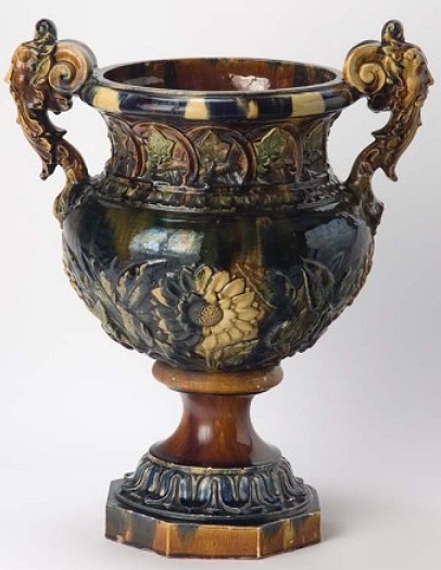 Jardiniere - James Campbell & Sons held at by sculptor James Laurence Watts